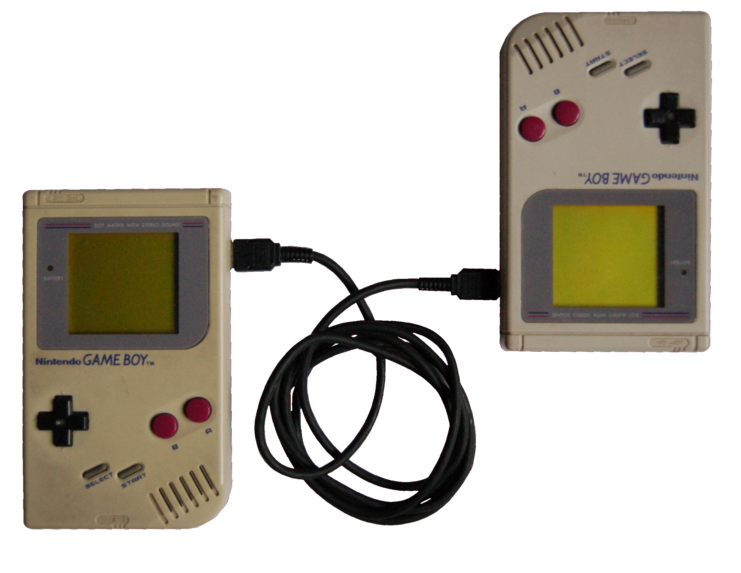 Two Gameboy with wire.